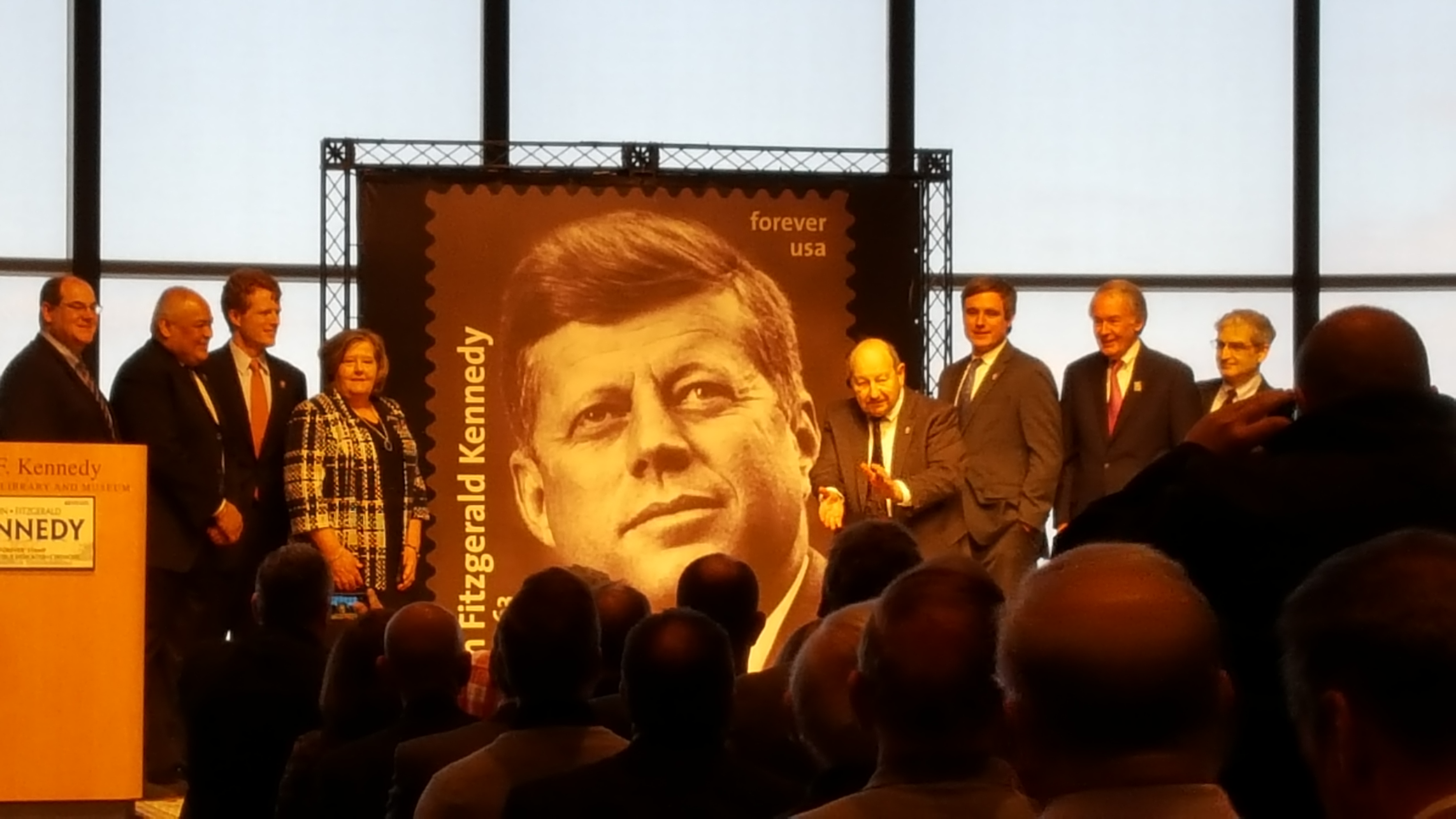 The dedication of a new Forever stamp to honor what would be President John F. Kennedy's 100th birthday.